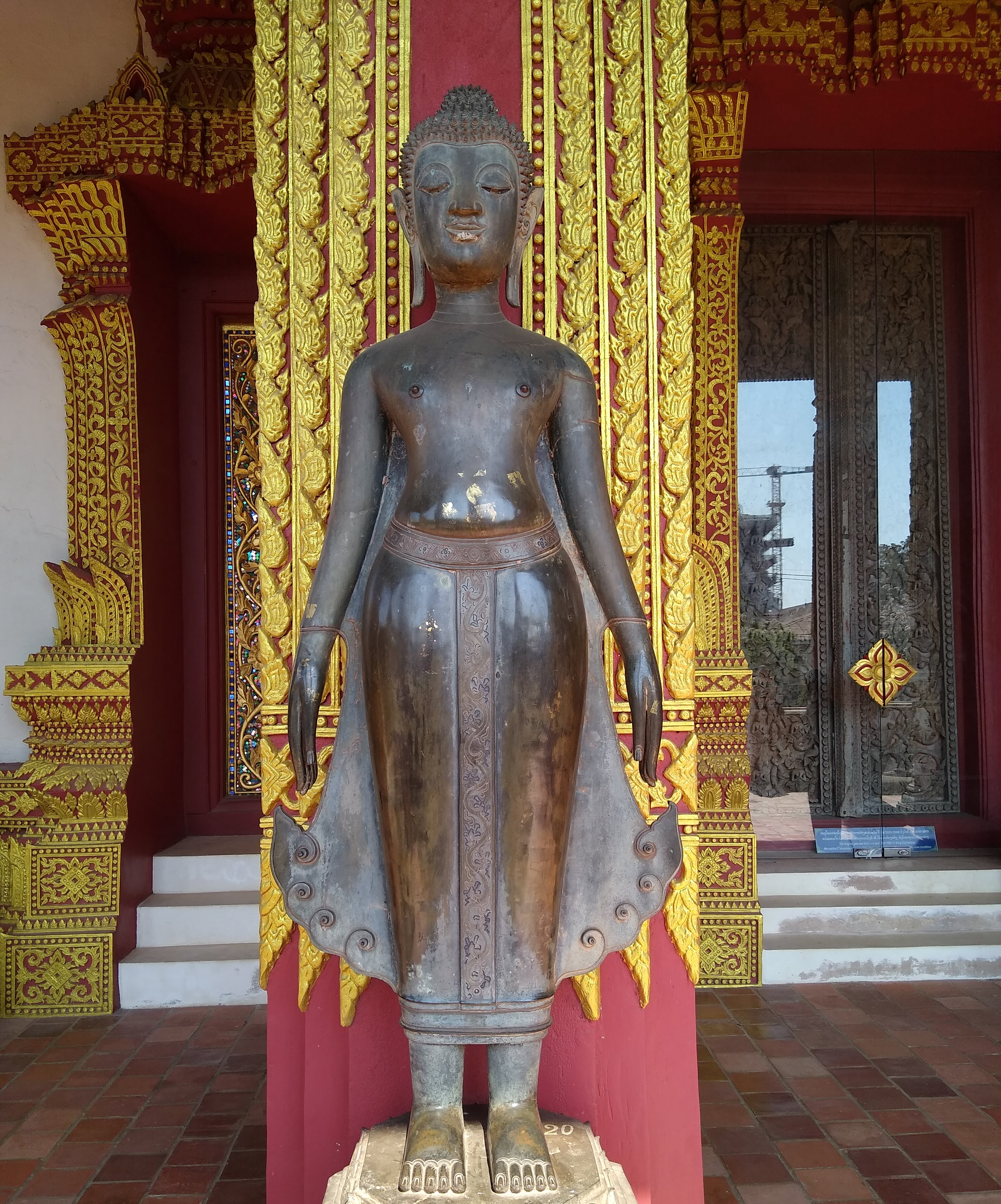 A premodern (18th-century) Buddha statue in the "calling for rain" posture, on display at Haw Phra Kaew in Vientiane.